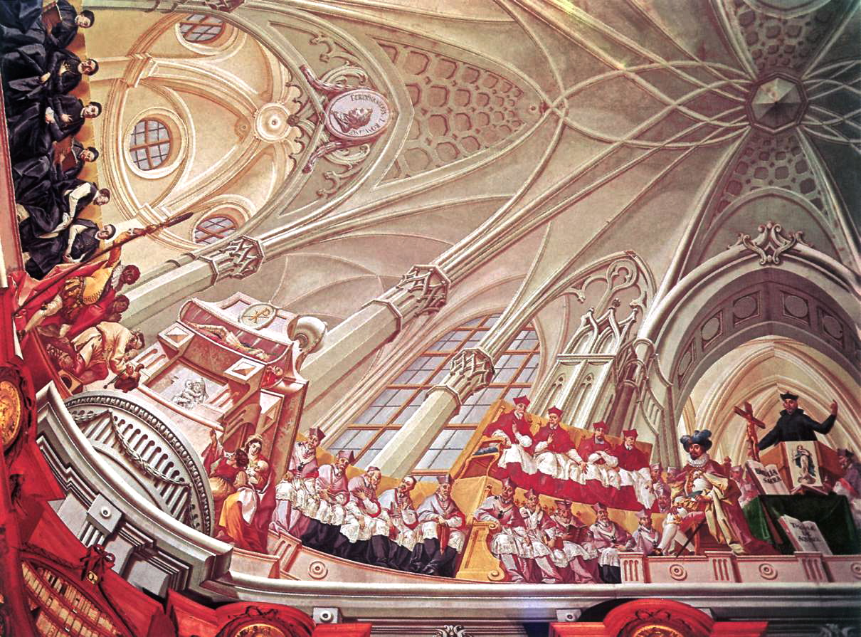 The Council in Trident, Fresco, Library of the College Eger, Kracker, Johann Lucas 1778